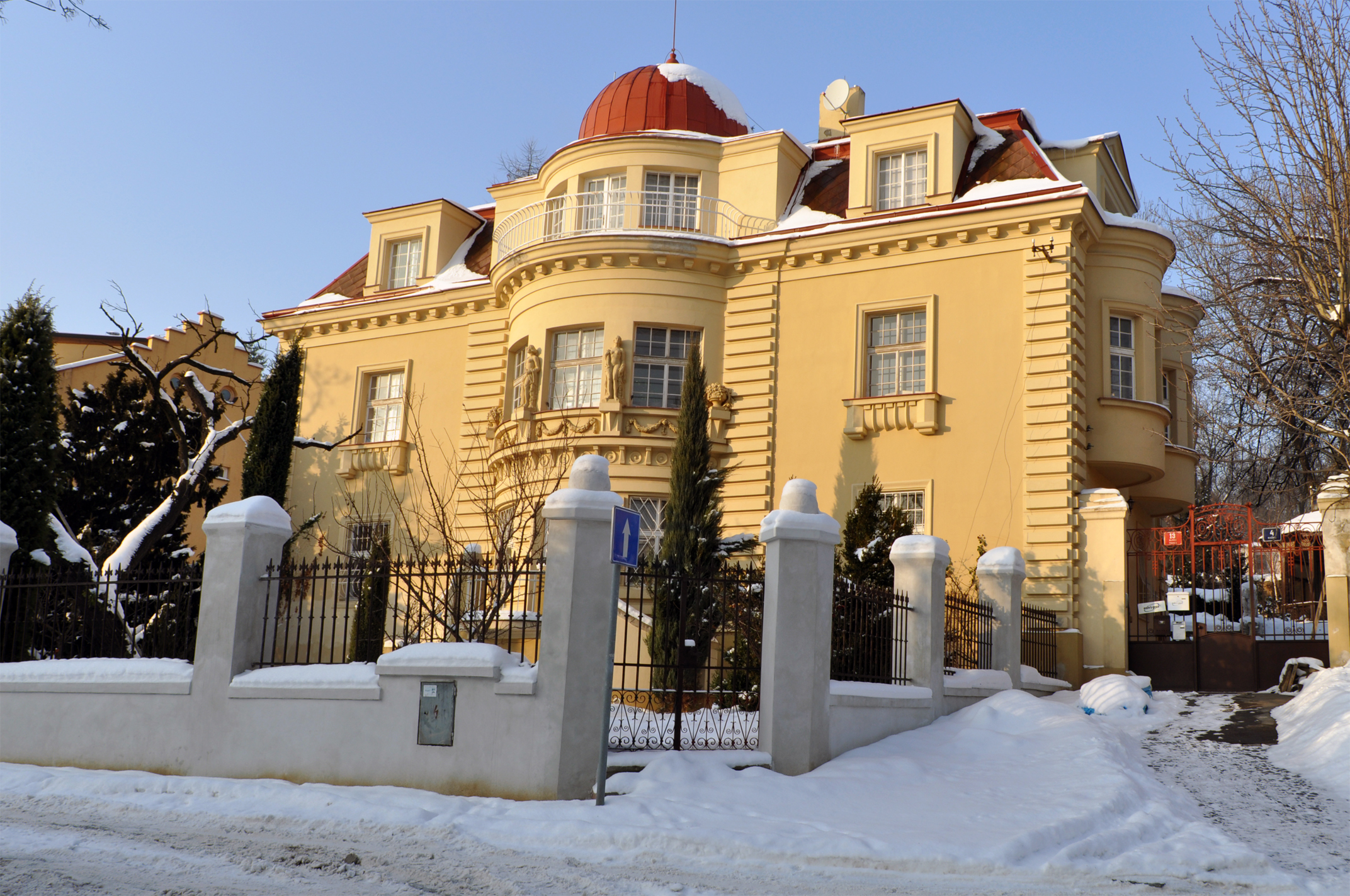 Holding Hercovka, Prague